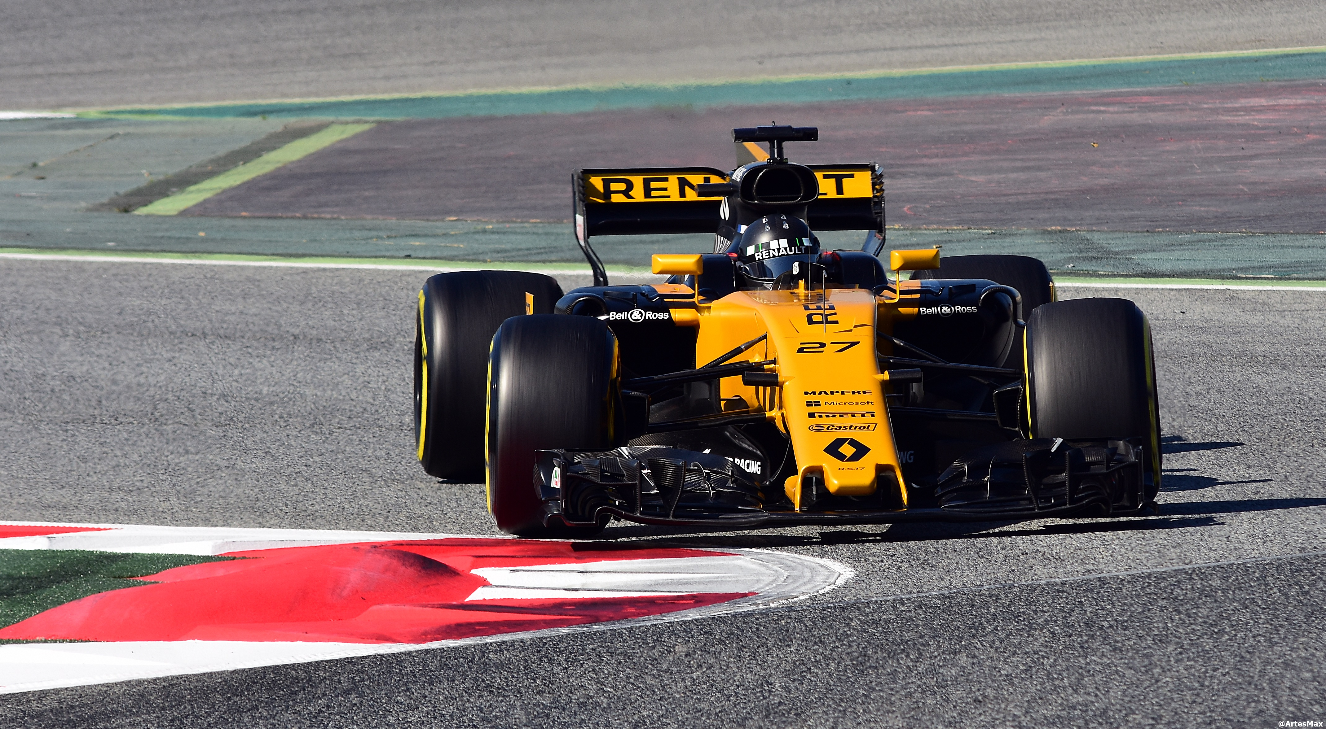 Nico Hülkenberg testing the Renault R.S.17 at Barcelona